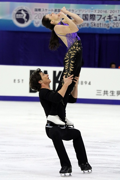 Tessa Virtue and Scott Moir at the 2016 NHK Trophy